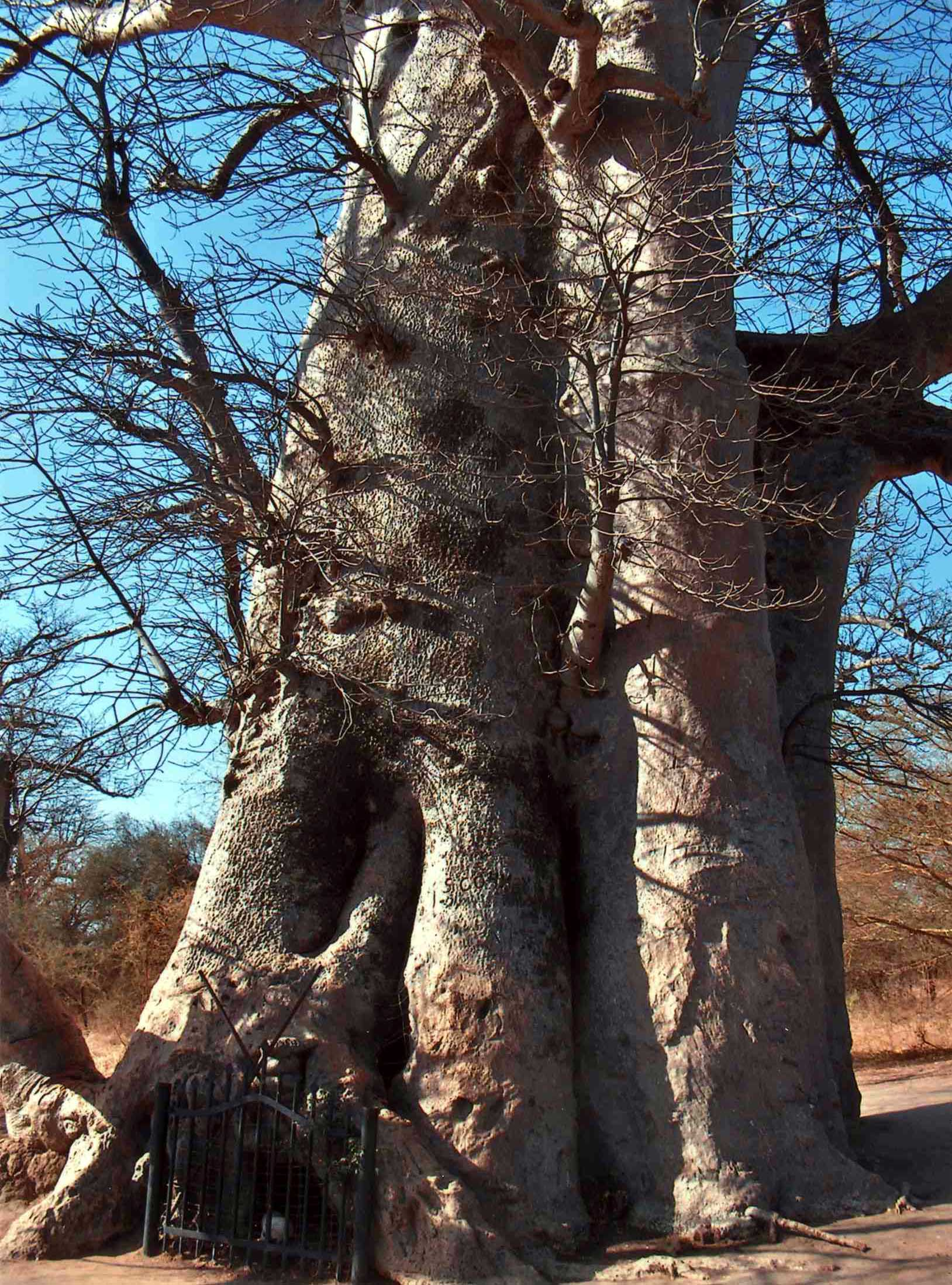 A Baobab tree trunk, Adansonia digitata, of the Sahel sub-Saharan savanna, in the Bandia Reserve, Senegal.